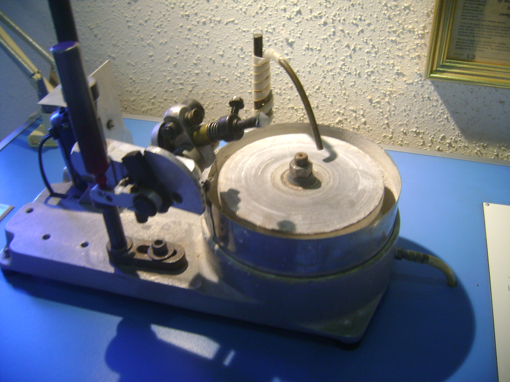 Faceting machine at Shelby Gem Factory